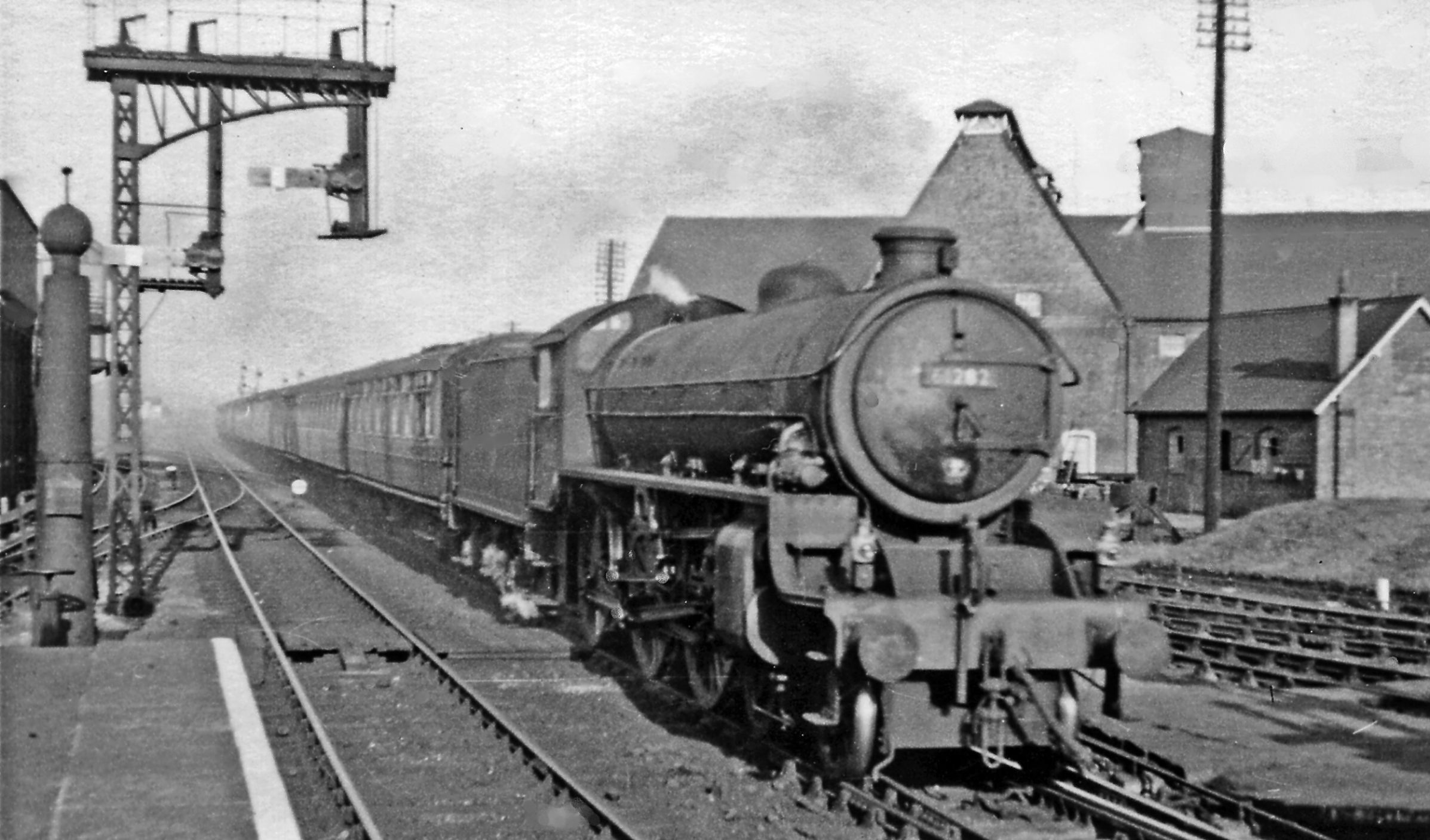 Up Cromer - London express passing Witham. View NE towards Colchester etc.: ex-GE main line. The 15.45 from Cromer via Norwich to Liverpool Street is headed by Thompson B1 4-6-0 No. 61282 (built 1/48, withdrawn 9/62).